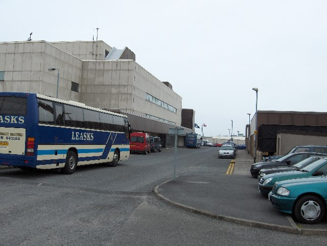 terminal Building, Sumburgh Airport, Shetland. Looking at the entrance to the passenger terminal building at Sumburgh Airport, Shetland.